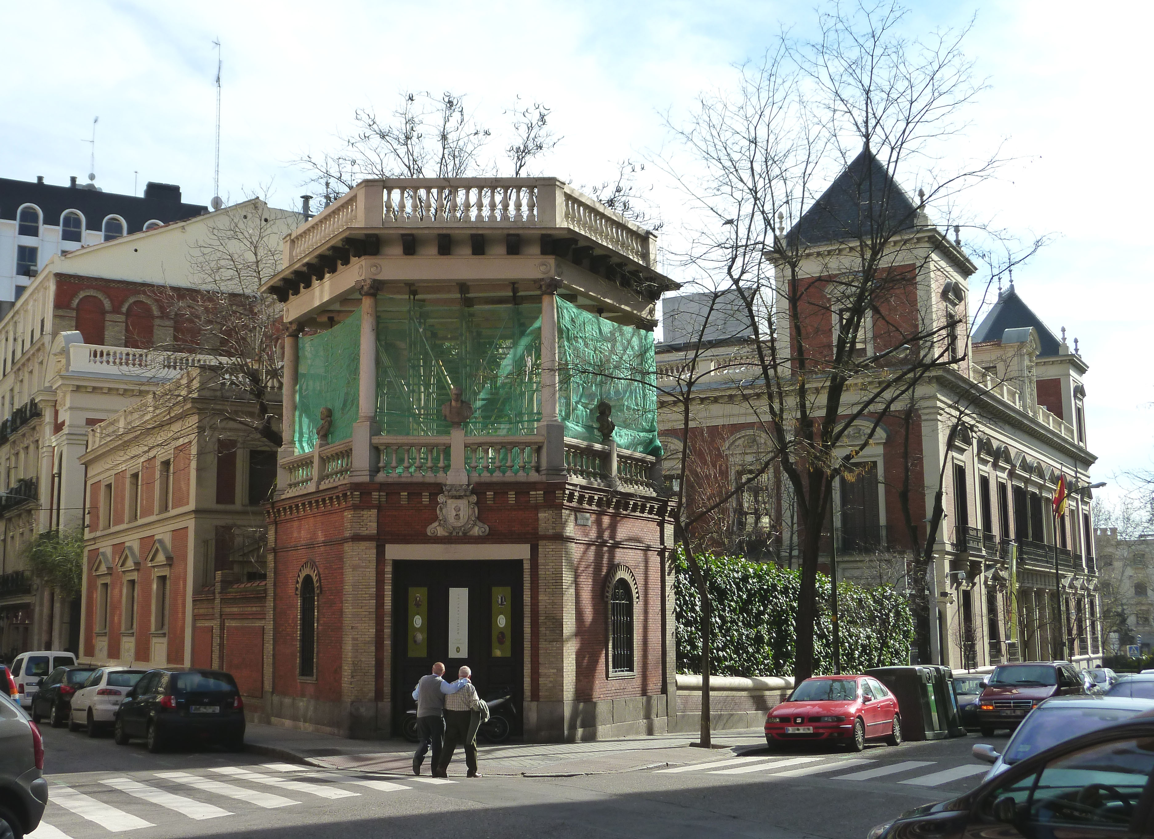 View of Cerralbo Museum in Madrid (Spain) from the north angle.